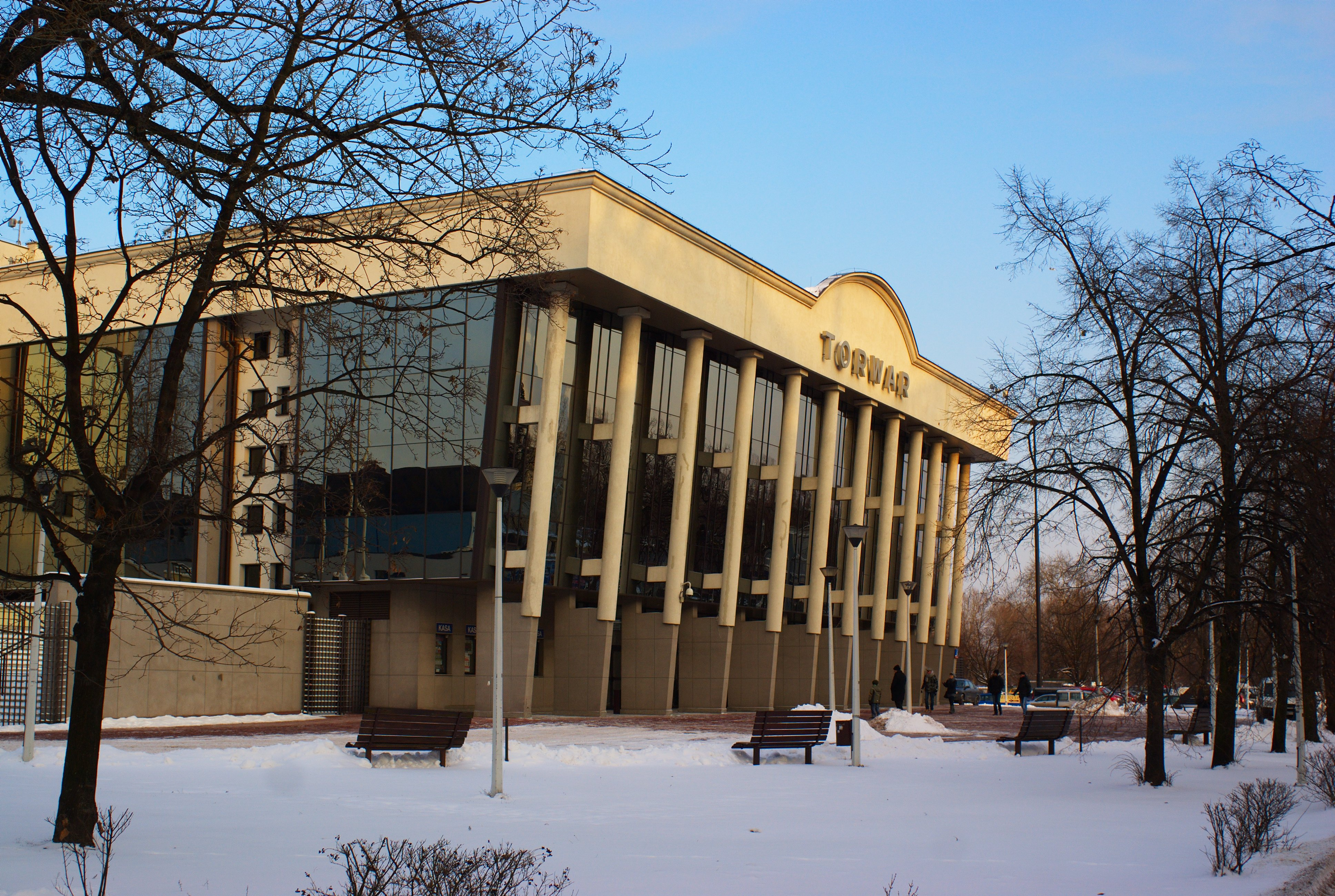 Torwar in Warsaw (after modifications)